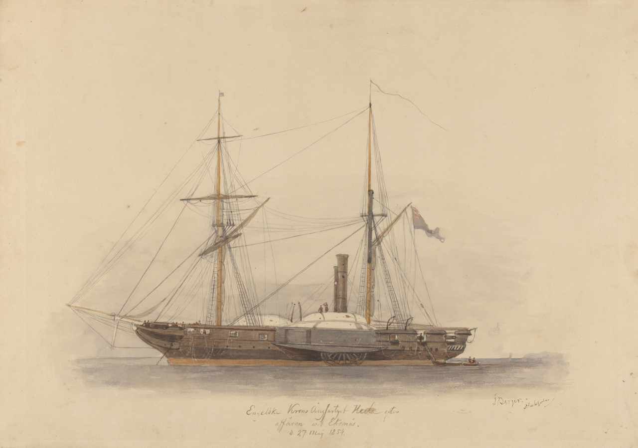 Engelska Krono Augfartyet Hecla efter affaren wid Ekenas d.27 May 1854 Port-side view of the Hecla. Inscribed in pen: 'Engelska Krono Augfartyet Hecla efter affären wid Ekenäs d.27 May 1854'. Signed in pen by the artist: 'J Berger, Stockholm' Engelska Krons Augfartyet Hecla after affaren wid Ekemas d.27 May 1854